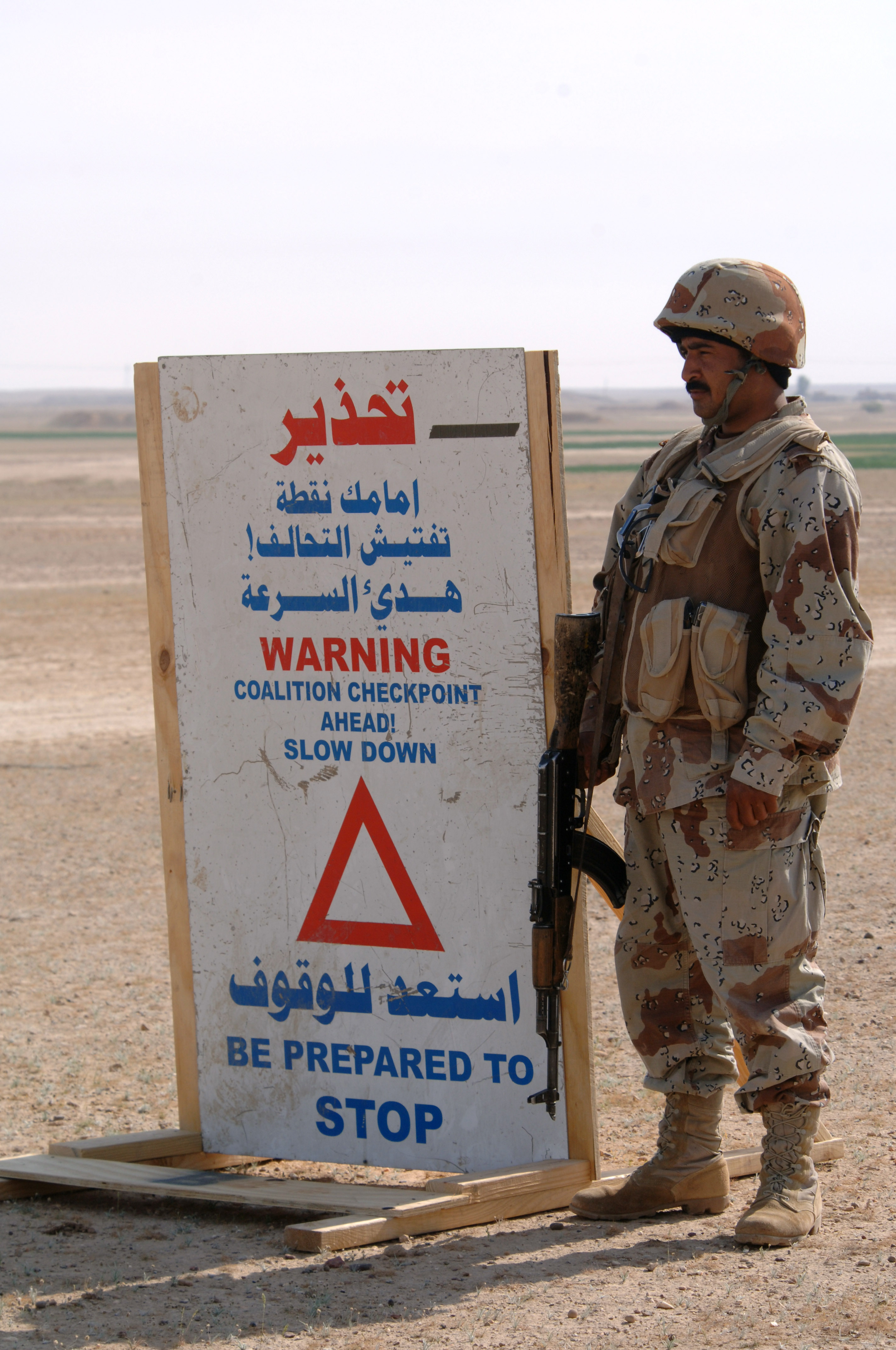 Salah Ad Din Providence, Iraq (March 31, 2006) - An Iraq Army soldier assigned to the 1st Battalion, 1st Brigade, 4th Division, mans a checkpoint during Operation Red Light II, on the outskirts of Monfia village in the Western Desert. With the use of more than six UH-60 Blackhawks and four CH-47 Chinooks, the assault personnel questioned five al-Qaida-supportive personnel and informants and secured miscellaneous letters, videos, a computer, two AK-47 assault rifles and two sniper rifles. U.S. Navy photo by Journalist 1st Class Jeremy L. Wood (RELEASED)